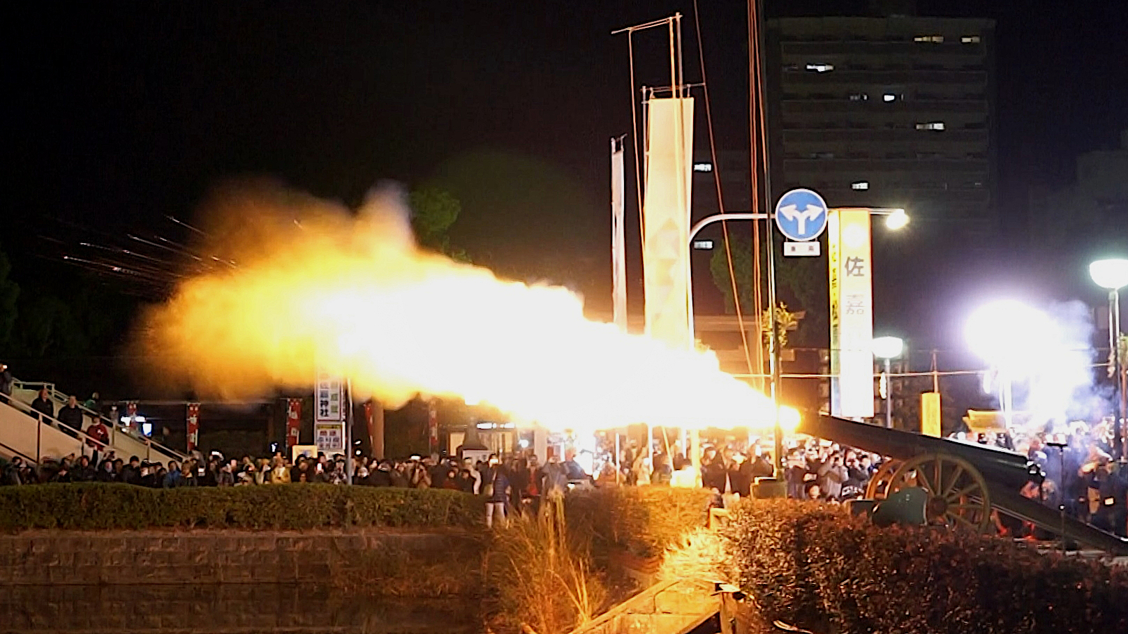 Cannons salute for new year celebration of Saga(-jinja) Shrine in Saga, Japan in January 1st, 2019. Uses restored 24-pounds cannon as the last years of Edo Period.